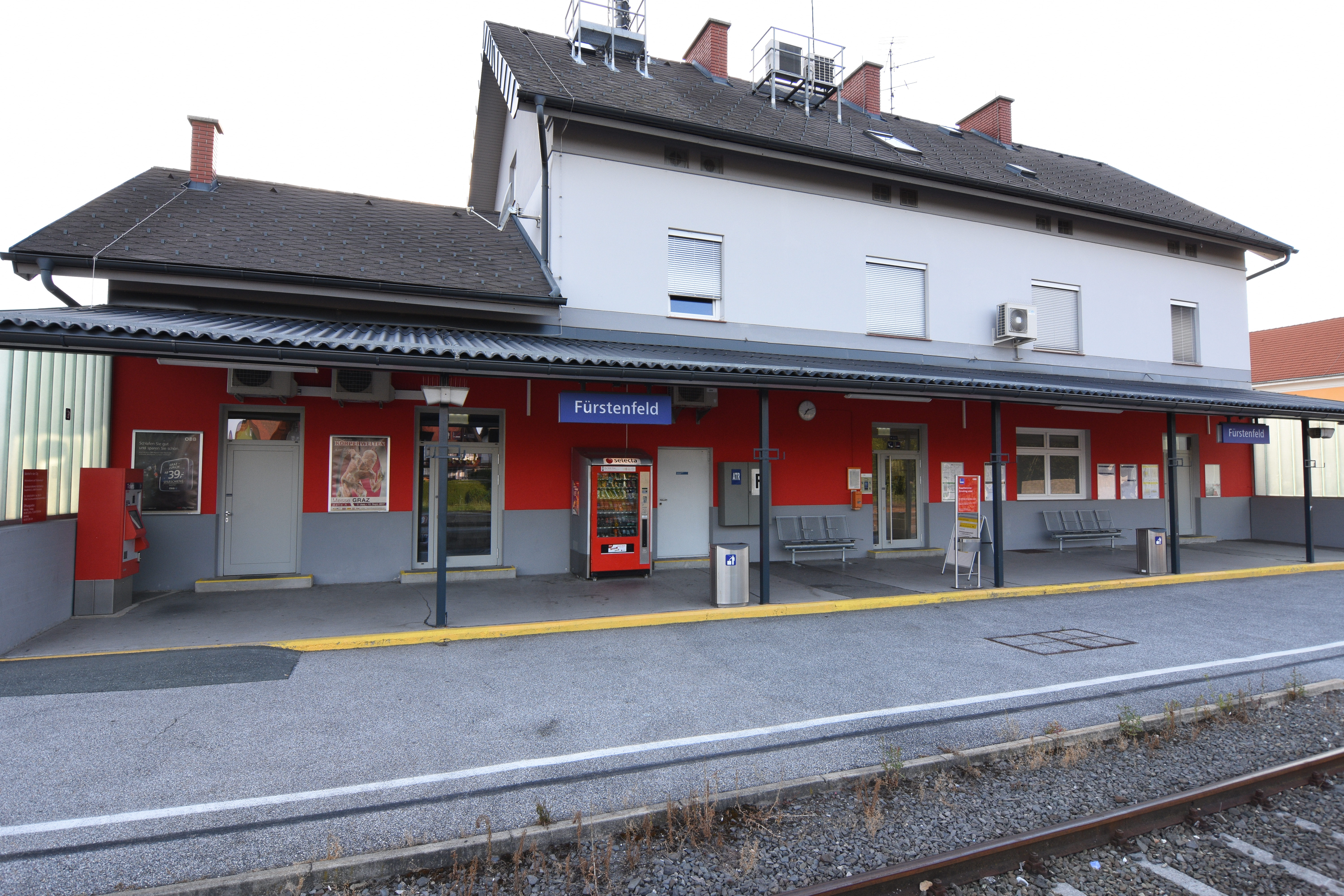 Bahnhof Fürstenfeld